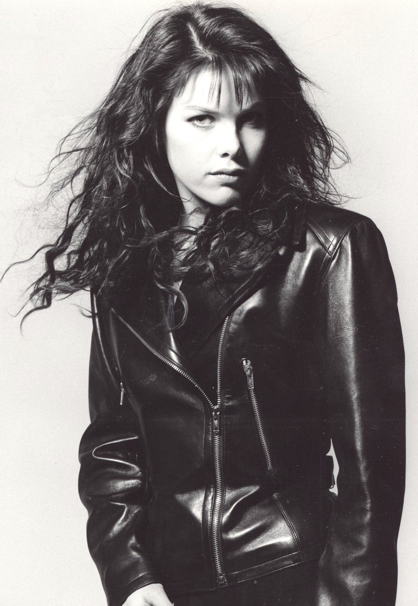 German singer C.C.Catch as Disco Queen during the 1980s